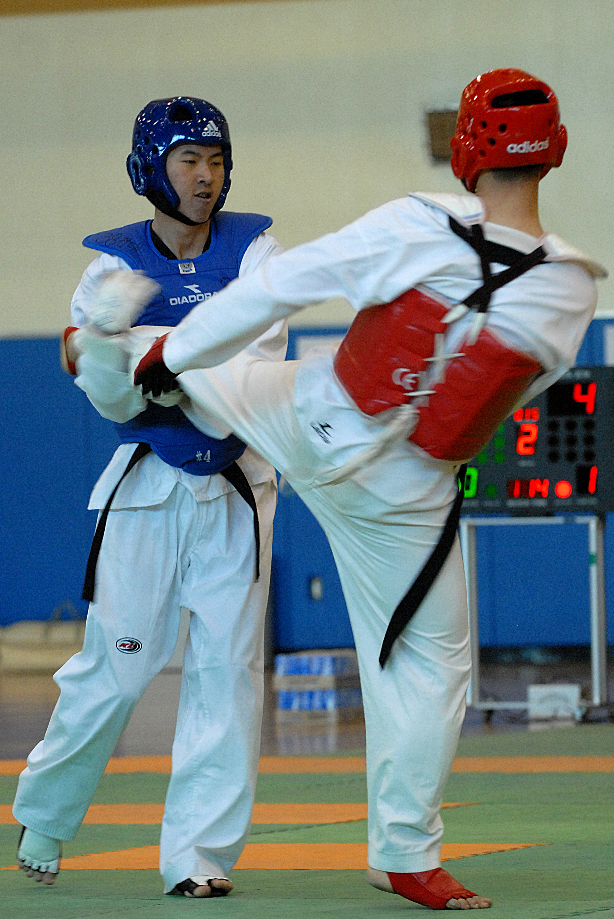 KUNSAN AIR BASE, Republic of Korea -- Airmen from the Republic of Korea Air Force's 38th Fighter Group compete during the base Taekwondo tournament here Jan. 30. The tournament is held annually as an opportunity for Airmen from the 8th Fighter Wing and 38th FG to strengthen their relationship, learn more about each others culture and test their martial arts skills.